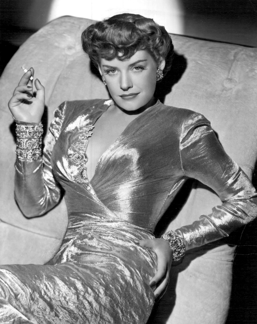 Photo of German sctress Kaaren Verne, a still from the American drama film All Through the Night (1942). Verne had been working in films in the United Kingdom for some time, but when World War II brought the United Kingdom film industry to a halt, she emigrated to the United States to continue her career.